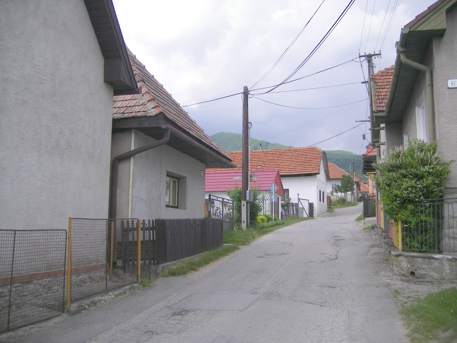 Turčianske Kľačany - street view